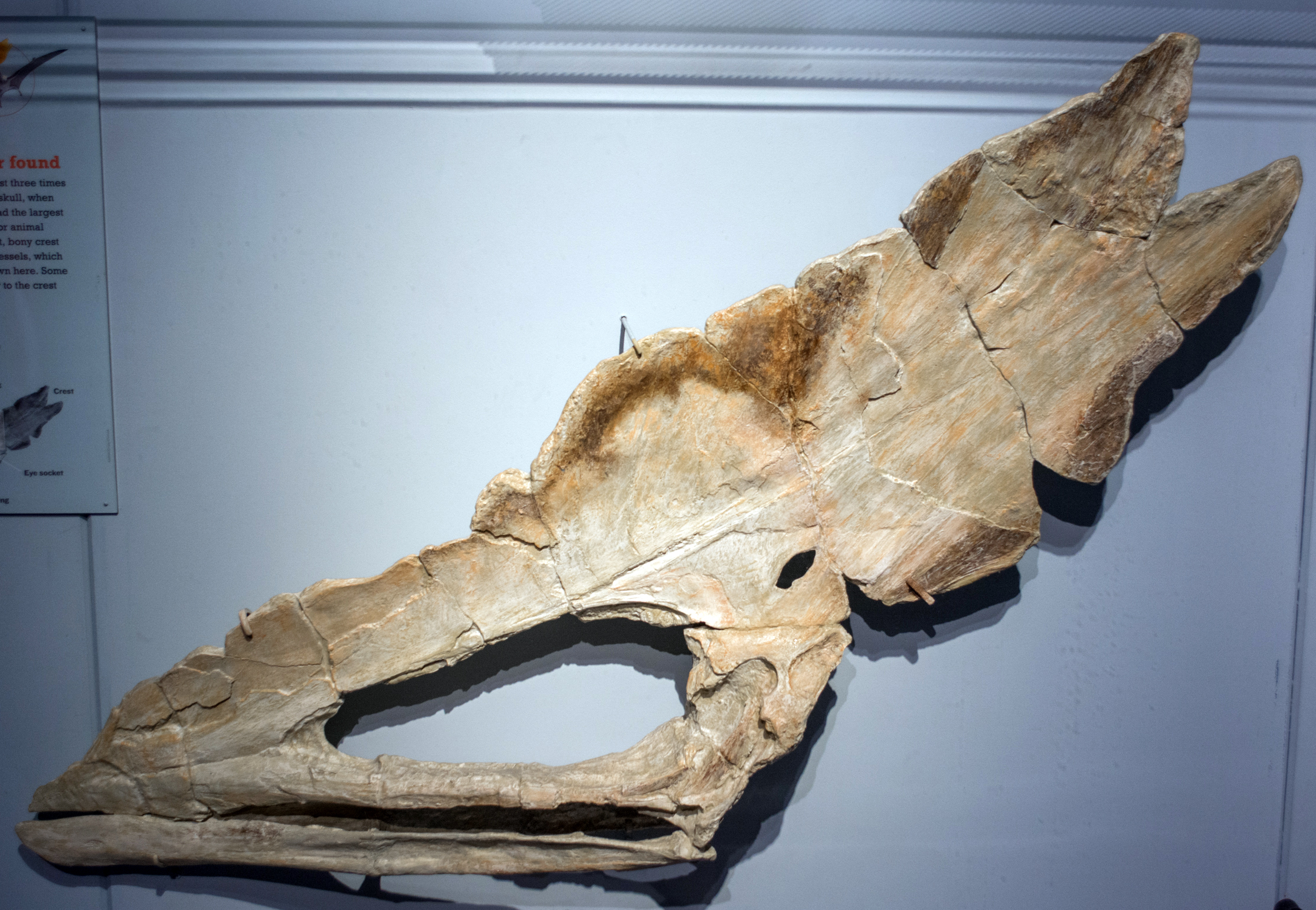 Cast of Thalassodromeus sethi - Pterosaurs Flight in the Age of Dinosaurs